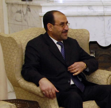 Jawad al-Maliki meets with Secretary of State Condoleezza Rice, Secretary of Defense Donald H. Rumsfeld and U.S. Ambassador to Iraq Zalmay Khalilzad in Baghdad, Iraq.